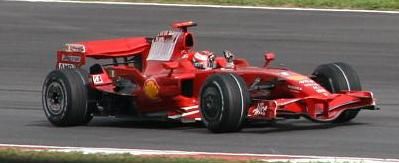 Kimi Räikkönen driving for Ferrari at the 2008 Malaysian Grand Prix.